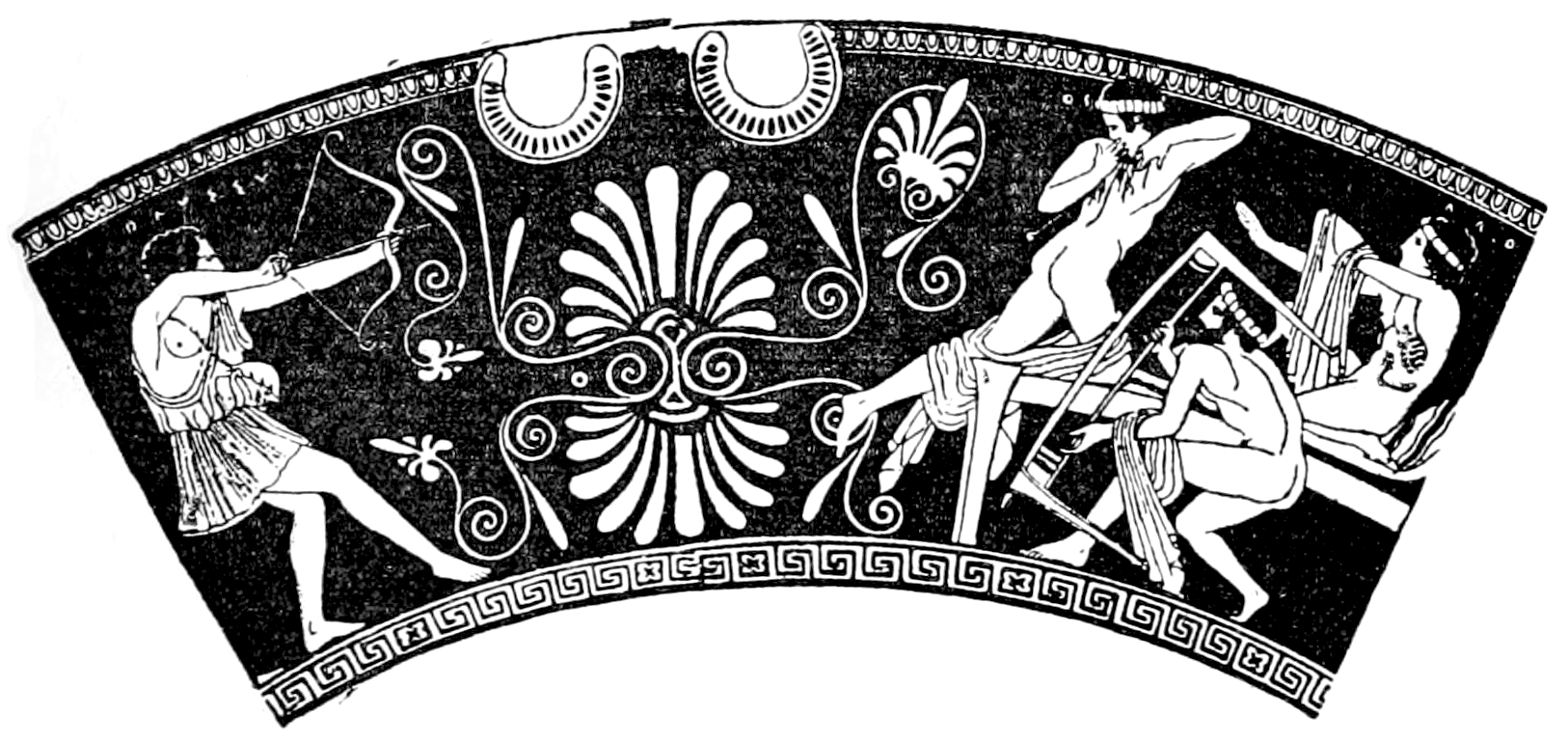 Illustration from an article, "A Solution of the Gorgon Myth."